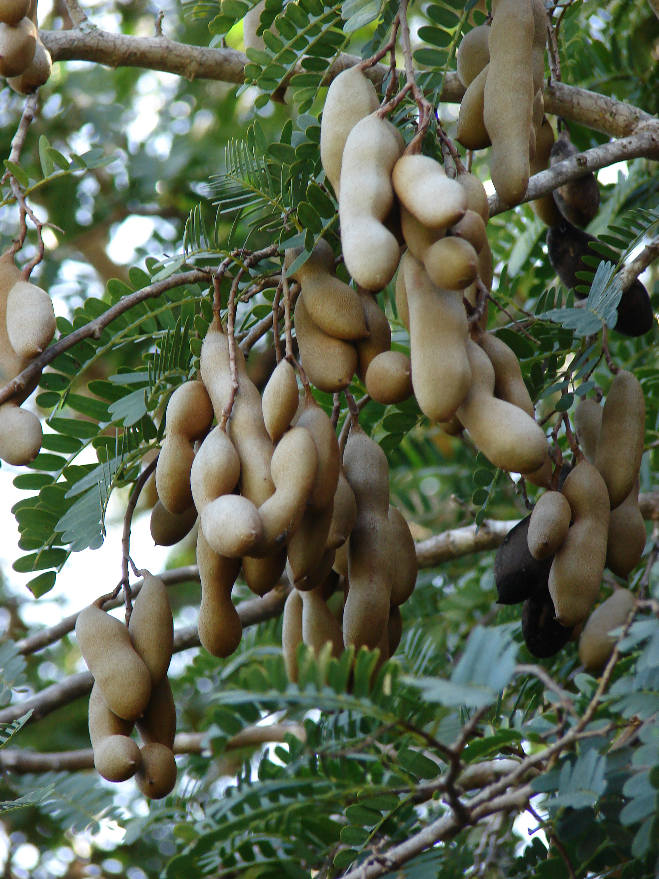 Tamarindus indica (leaves and fruit). Location: Lanai, Lanai City